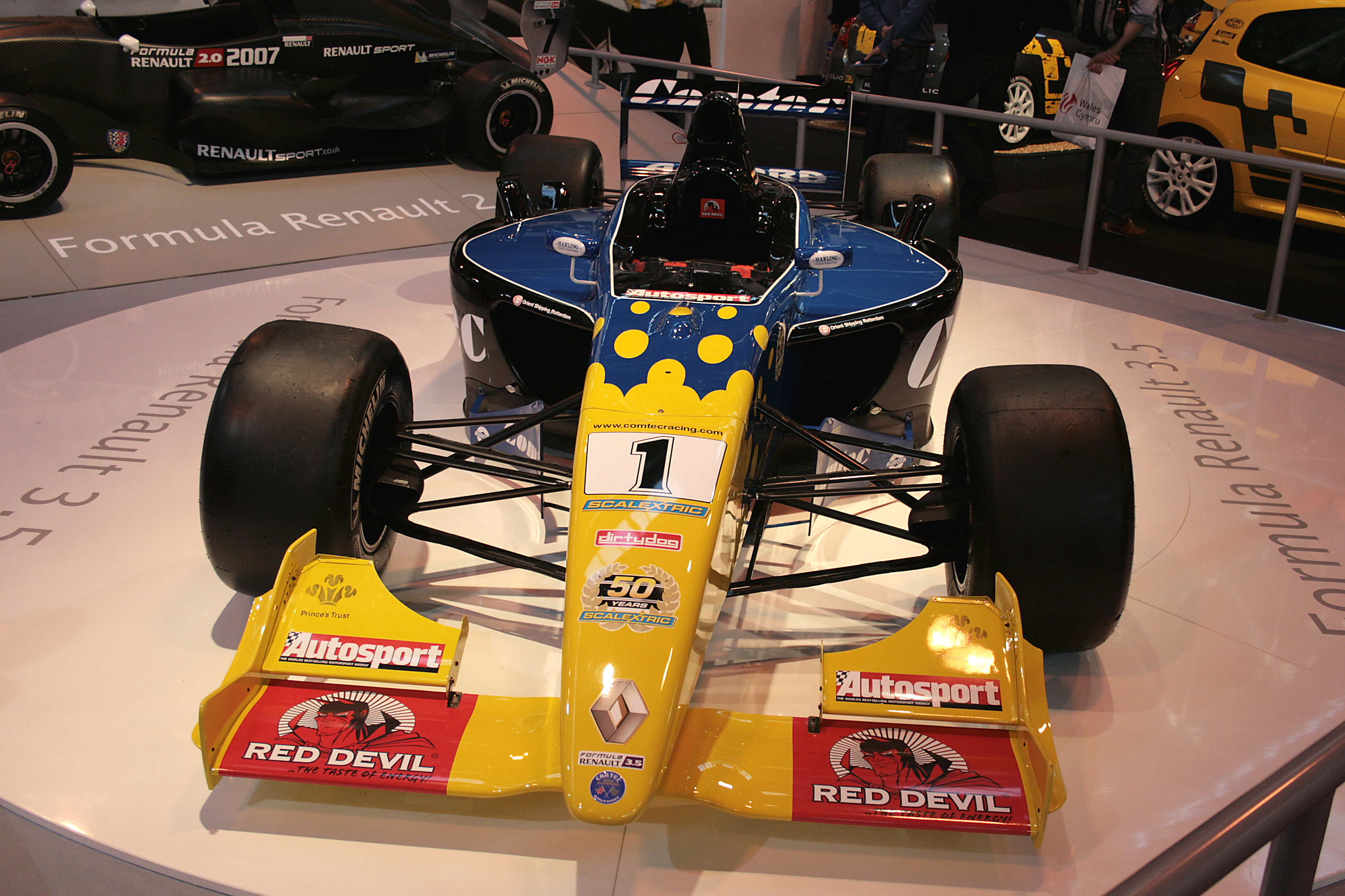 Comtec Racing's Formula Renault 3.5 car (front) in the World Series Formula Renault 3.5, World Series by Renault.